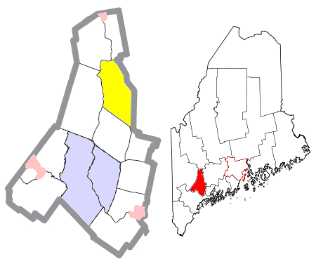 Map of the divisions of Androscoggin County, Maine, United States, with the town of Leeds highlighted in yellow. The cities of Auburn and Lewiston are light blue; other towns are white; and pink areas are census-designated places within towns.